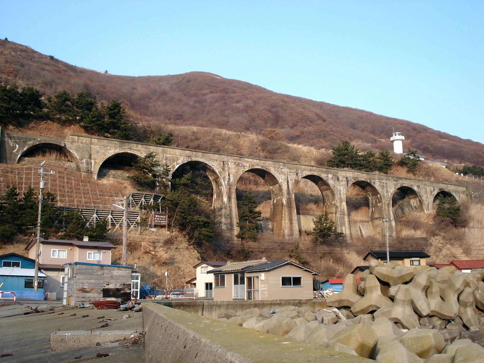 Toi Line with Shiokubi lighthouse in Hakodate city, Hokkaido, Japan